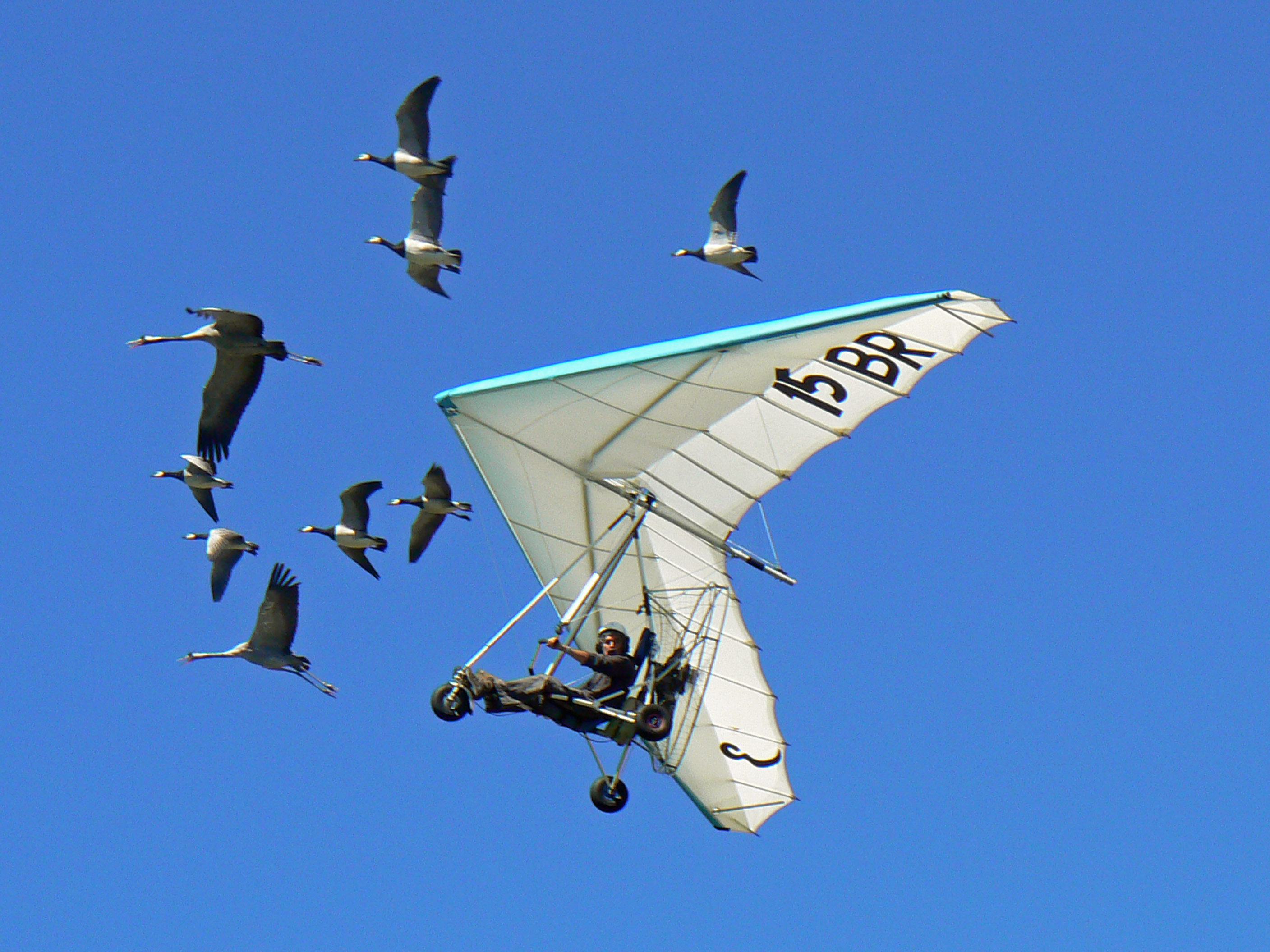 Christian Moullec flying with geese in Dahlem, Germany